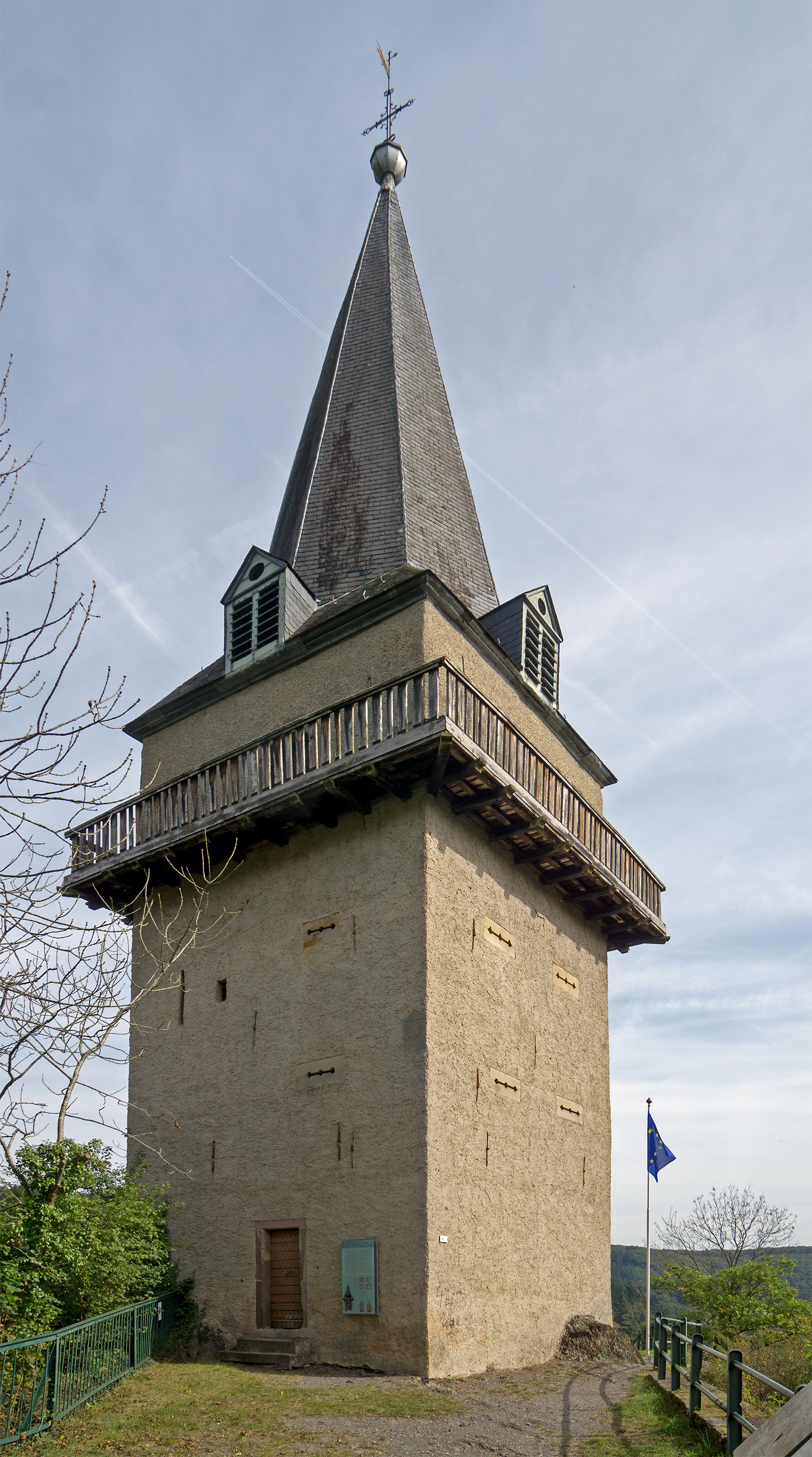 Hockels-tower in Vianden